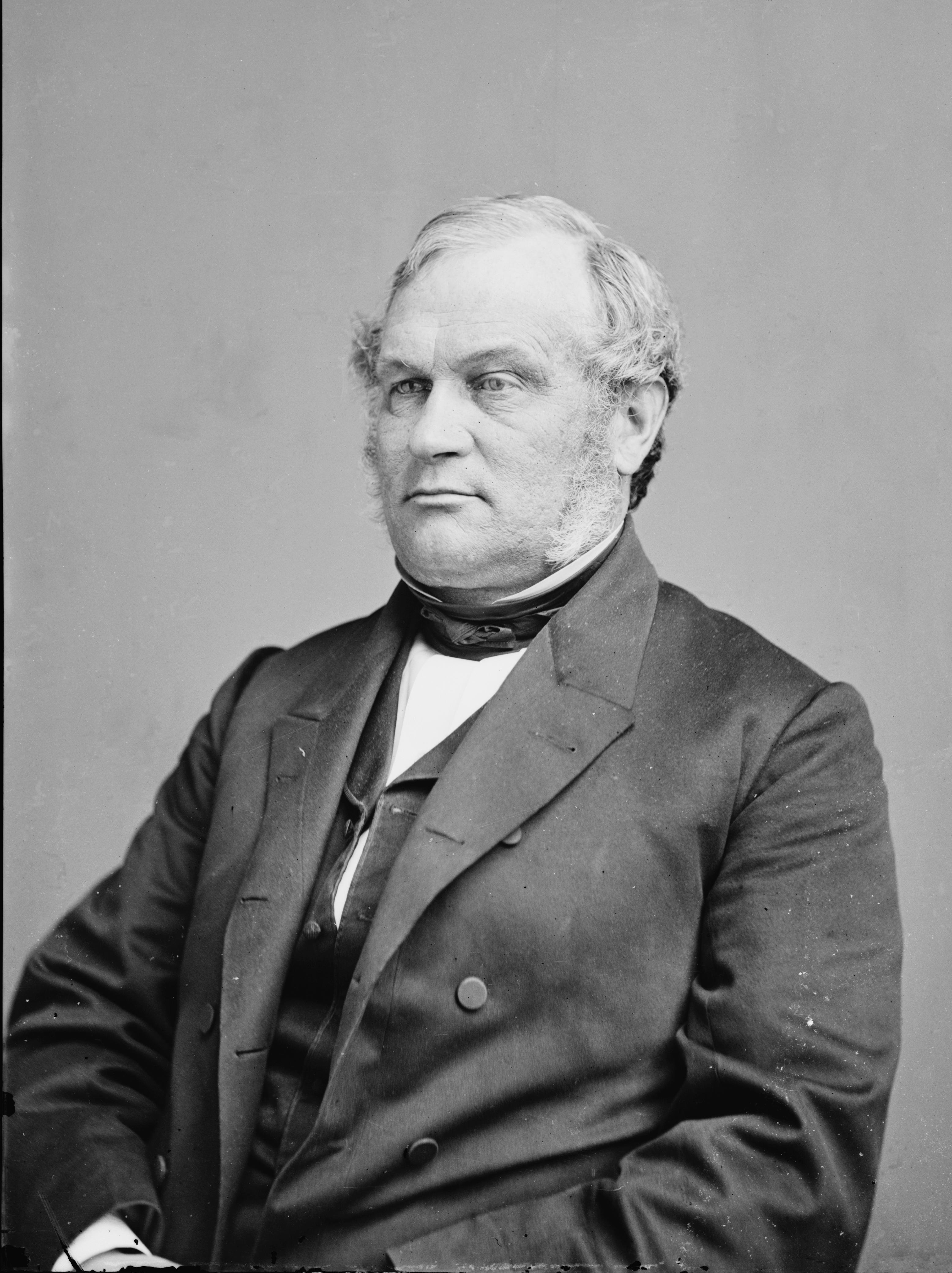 Alexander Ramsey. Library of Congress description: "Alexander Ramsey"